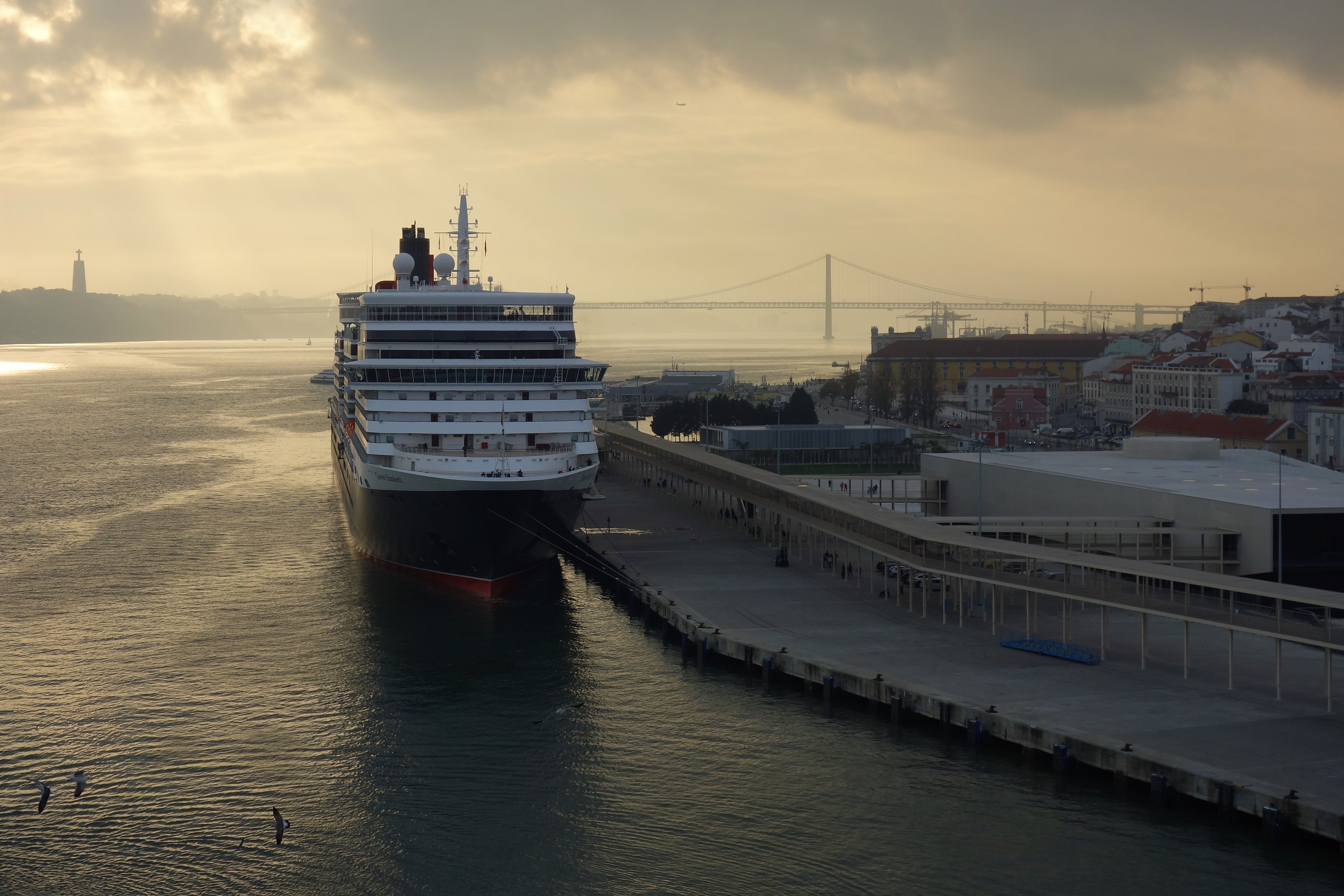 Queen Elizabeth moored at Terminal de Cruzeiros de Lisboa